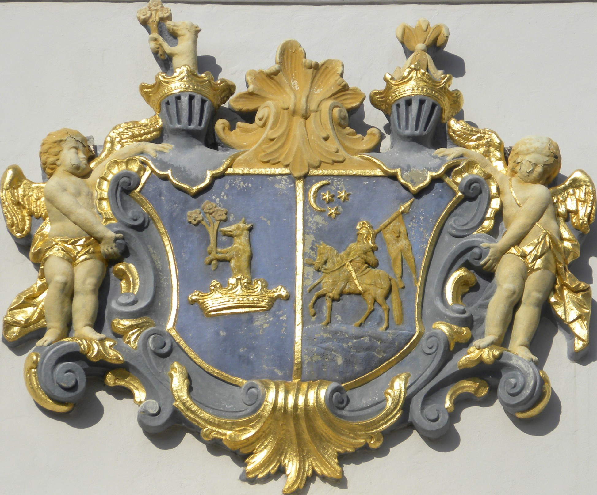 Coats of arms of László Révay and Éva Jozefa Szunyogh. Facade of manor house in Mošovce.